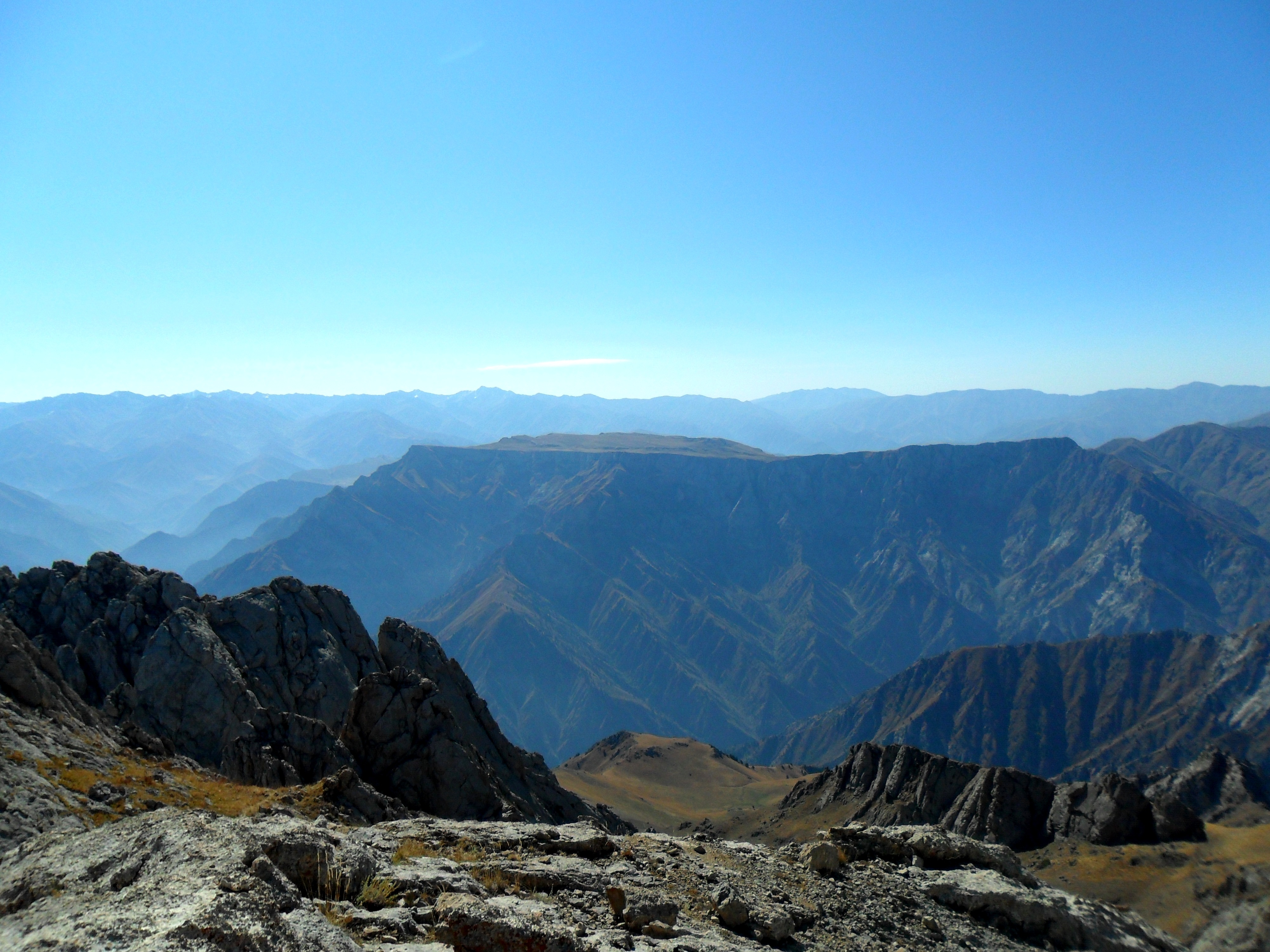 Pulatkhan plateau. View from Tumanniy (Misty) Pass. Tashkent area, Uzbekistan.